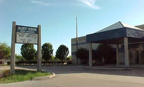 Main entrance of Alief Kerr High School